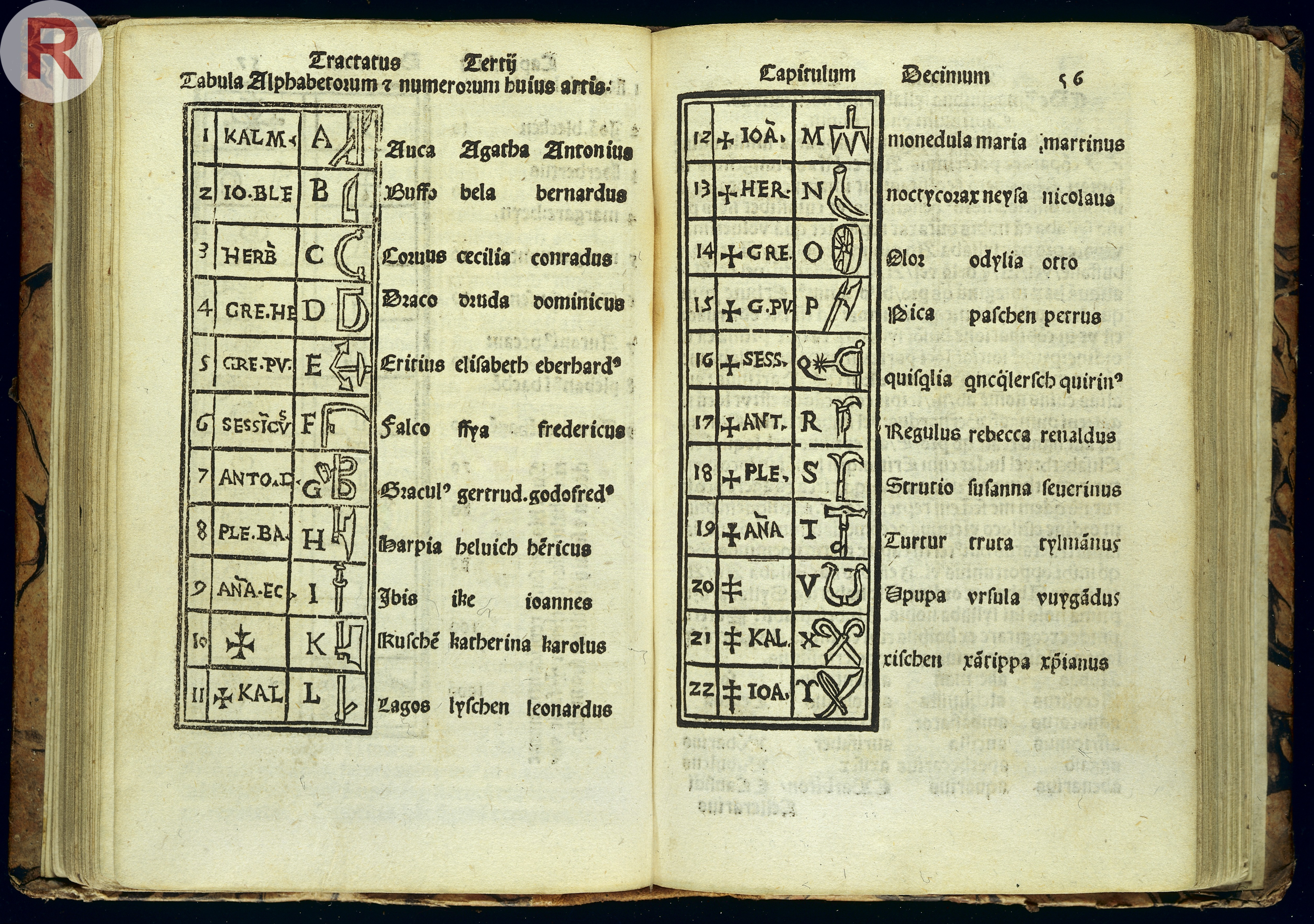 Johann Romberch, Congestorium artificiose memorie...omnium de memoria preceptiones aggregatim complectens. Venice: M. Sessa, 1533. folio 55v and 56r. visual alphabet. Rare Books Keywords: alphabet visual; ALPHABET; Memory; epb 5543/b